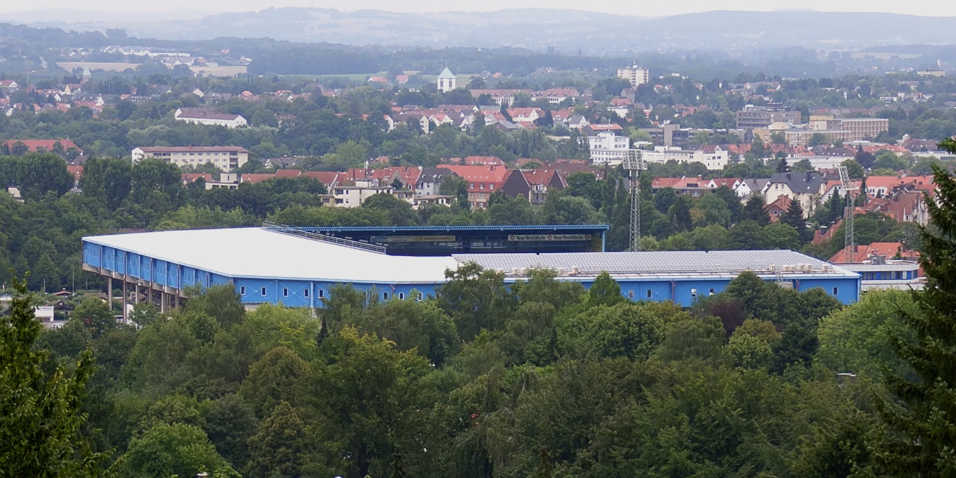 Bielefeld, Germany: Southwest view of the SchücoArena